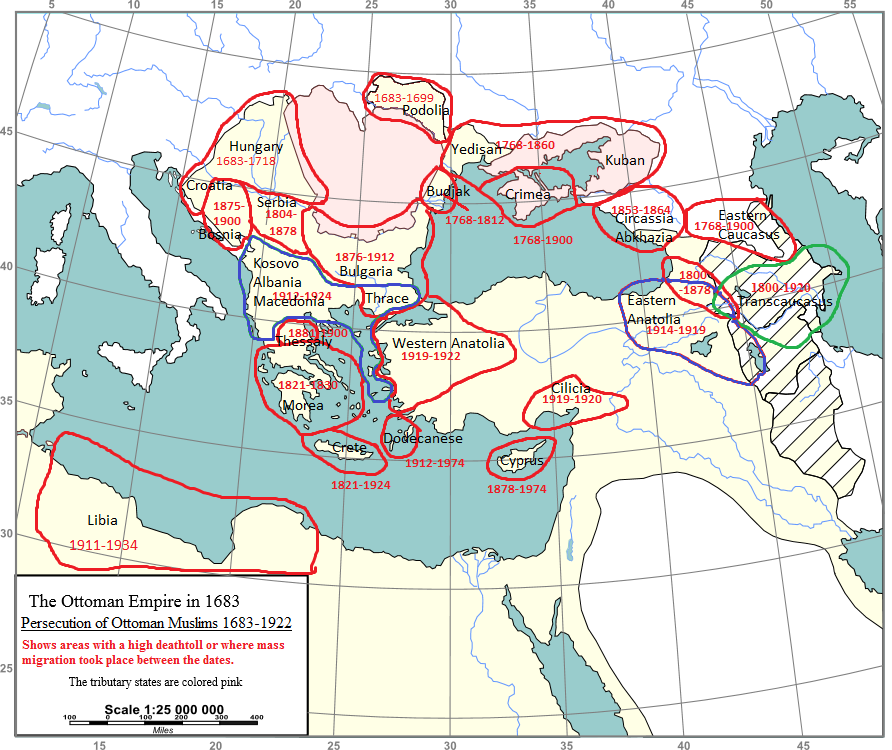 Map of the persecution of Ottoman muslims. 1683-1922. Sources: Stanford J. Shaw, Ezel Kural Shaw,History of the Ottoman Empire and Modern Turkey, Cambridge University Press, 1977, ISBN 9780521291668 Alan W. Fisher, The Crimean Tatars, Hoover Press, 1978, ISBN 9780817966638 Stanley Elphinstone Kerr,The Lions of Marash, SUNY Press, 1973, ISBN 9781438408828 Douglas Arthur Howard, The History of Turkey, Greenwood Publishing Group, 2001, ISBN 9780313307089 Benjamin Lieberman,Terrible Fate: Ethnic Cleansing in the Making of Modern Europe, Rowman & Littlefield, 2013, ISBN 9781442230385 Charles Jelavich,The Establishment of the Balkan National States, 1804-1920, University of Washington Press, 1986, ISBN 9780295803609 Suraiya Faroqhi,The Cambridge History of Turkey, Cambridge University Press, 2006, ISBN 9780521620956 Ugur Ümit Üngör, The Making of Modern Turkey, Oxford University Press, 2011, ISBN 9780191640766 Wilson, Peter (1 November 2002). German Armies: War and German Society, 1648-1806. Routledge. p. 85. ISBN 978-1-135-37053-4. Death and exile: the ethnic cleansing of Ottoman Muslims, 1821-1922, Justin McCarthy.